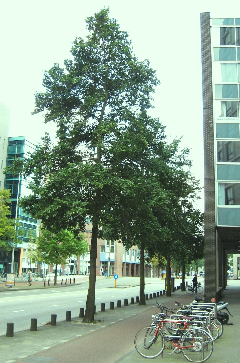 Photograph of elm cultivar 'Amsterdam' taken in Weesperstraat, Amsterdam.